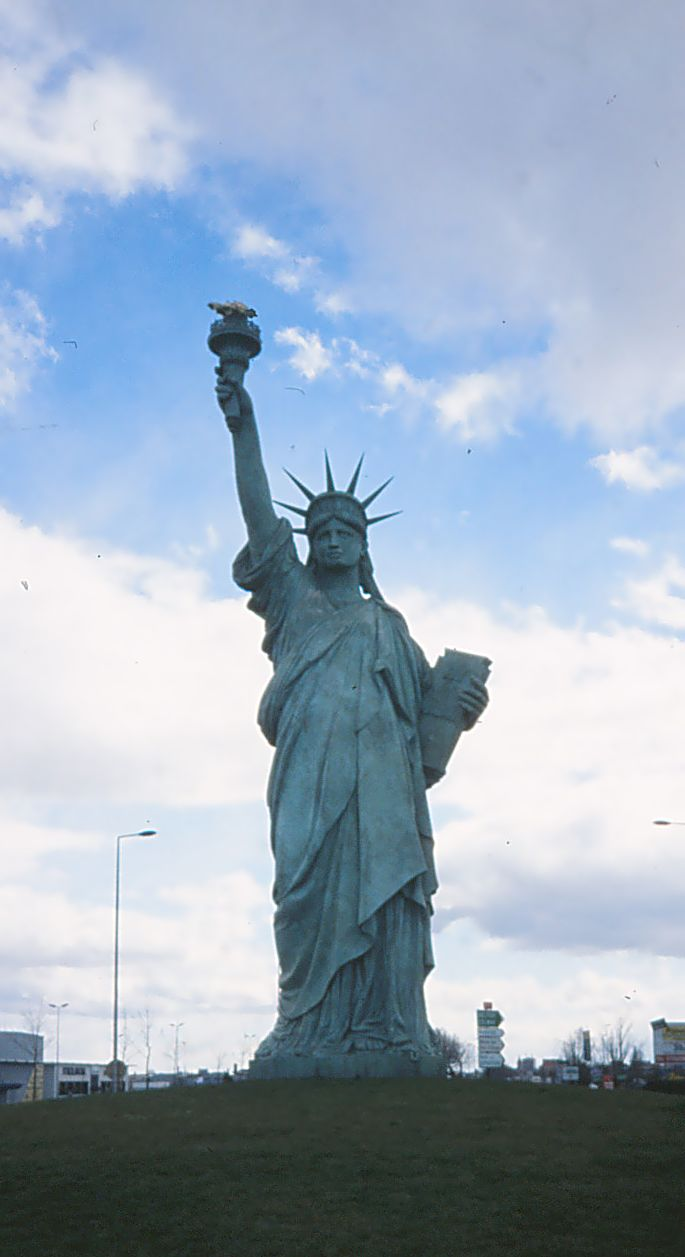 Statue Of Liberty in ½ size i Colmar, Alsace, France